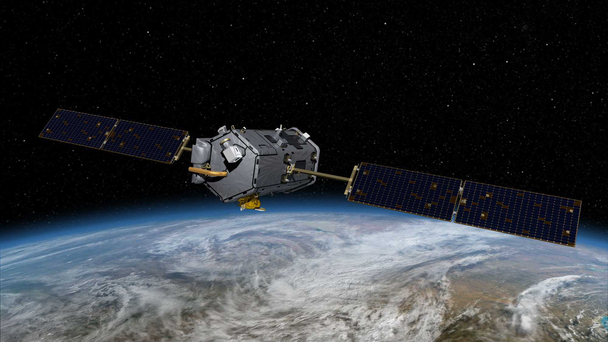 This is an artist’s concept of the Orbiting Carbon Observatory. The mission, scheduled to launch in early 2009, will be the first spacecraft dedicated to studying atmospheric carbon dioxide, the principal human-produced driver of climate change. It will provide the first global picture of the human and natural sources of carbon dioxide and the places where this important greenhouse gas is stored. Such information will improve global carbon cycle models as well as forecasts of atmospheric carbon dioxide levels and of how our climate may change in the future. Image credit: NASA/JPL